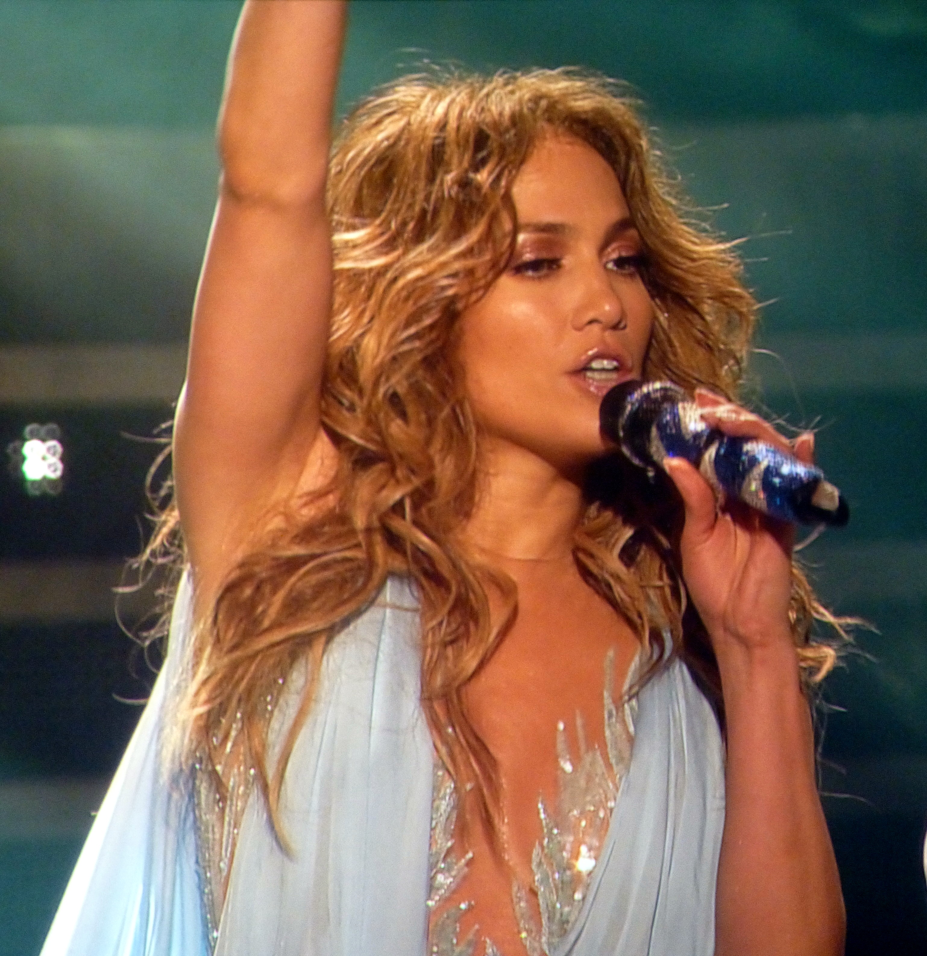 Jennifer Lopez in concert at Paris Bercy in the "Dance Again World Tour" in October 2012.